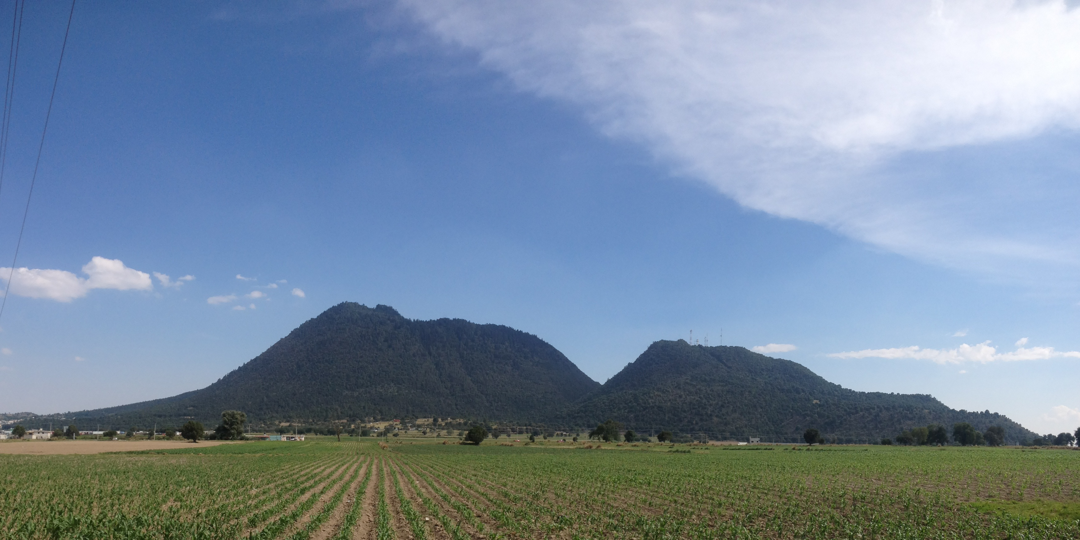 Pictured are El Pinal (3280 m a.s.l.) and El Tintero (2920 m a.s.l.), the two highest summits of the Sierra de Acajete, in Puebla, Mexico. This photo was taken from Ziltlaltépec de Trinidad Sánchez Santos, Tlax.